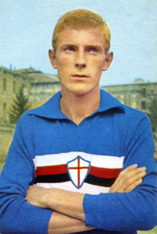 The Italian association football player Francesco Morini at UC Sampdoria in 1964-65 season